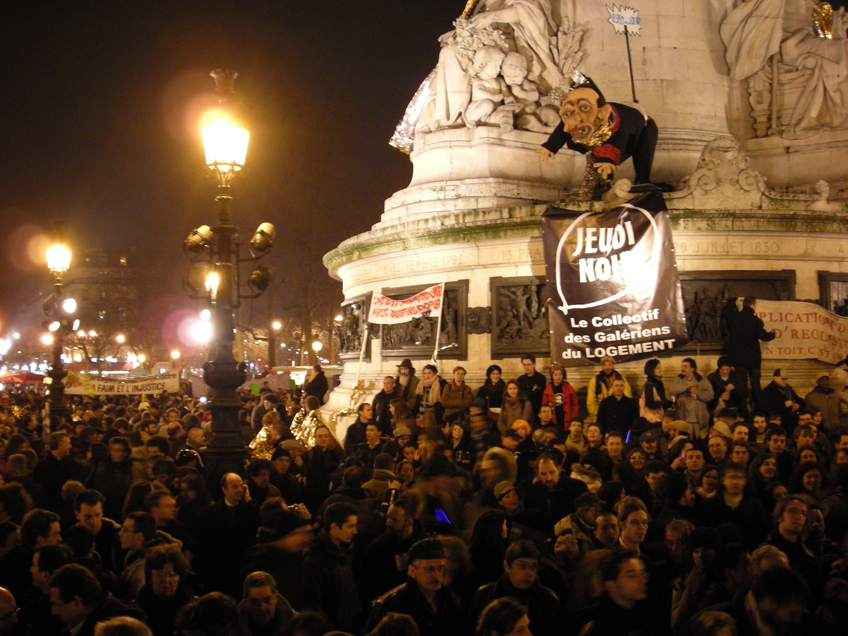 Popular rally for the homeless and badly housed, 21 February 2008 on the Place de la République in Paris.